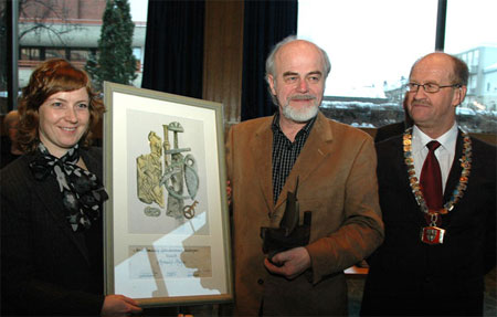 County mayor Gunnar Viken (right) and county council Annikken Kjær Haraldsen (left) awarding the Nord-Trøndelag fylkes kulturpris 2007 to theatre director Arnulf Haga